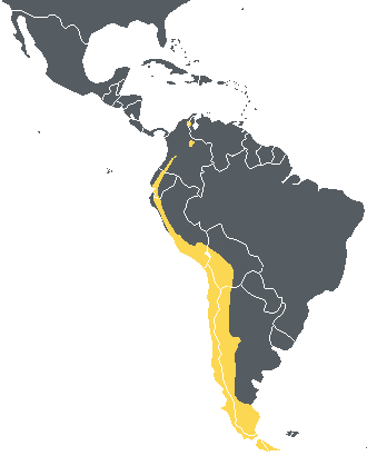 Range map for the Andean Condor. Source:National Geographic